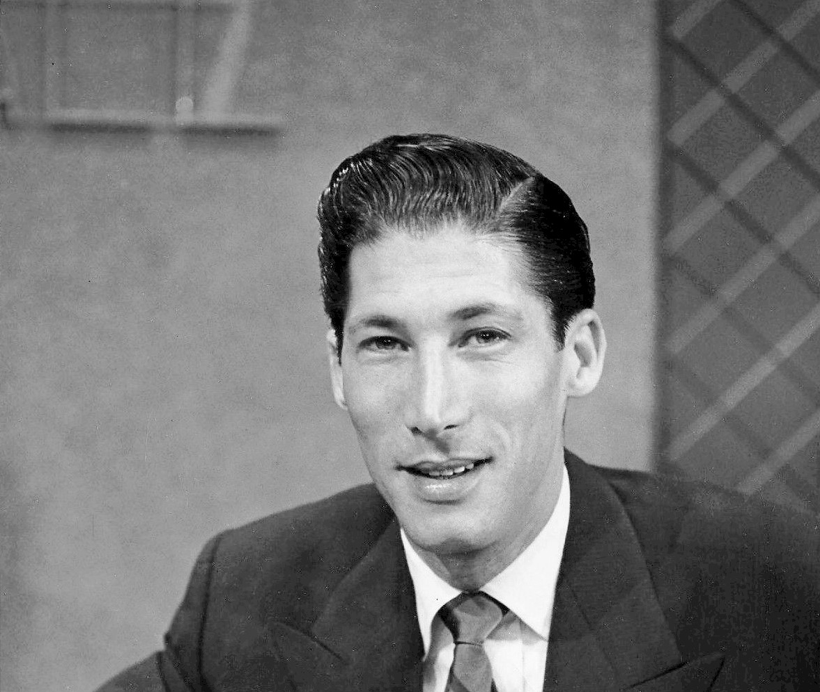 Photo of radio and television presenter Barry Gray.